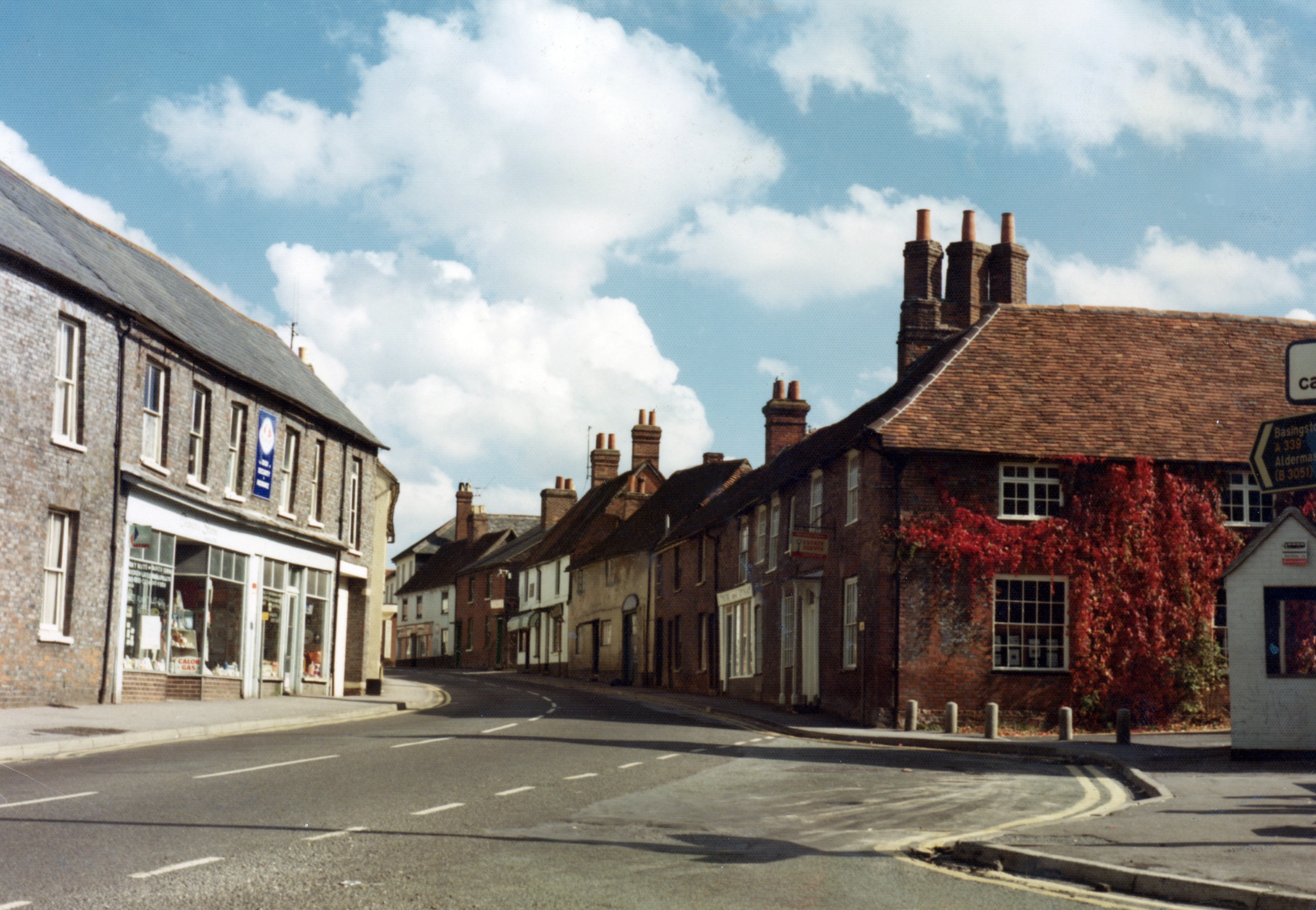 Next to Watership Down